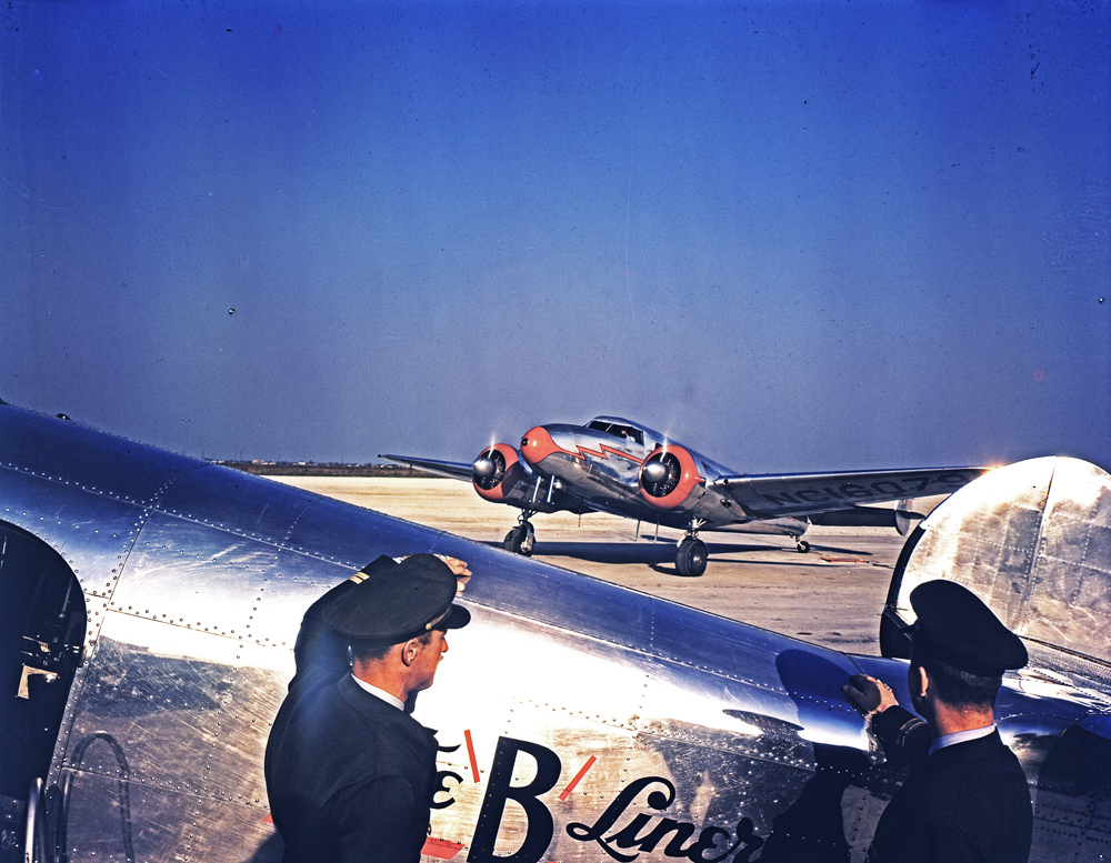 Title: [Braniff Airline Pilots Watching a Lockheed 12A Electra Junior] Creator: Robert Yarnall Richie Date: March 1940 Place: Houston, Texas Part Of: Robert Yarnall Richie Photograph Collection Description: Two Braniff Airline pilots, standing behind a Lockheed Model 10B Electra, watching a Lockheed Model 12A Electra Junior, belonging to the Continental Oil Company, maneuver on the tarmac at William P. Hobby Airport in Houston, Texas. Physical Description: 1 transparency: film, color; 10.1 x 12.6 cm File: ag1982_0234_2116_K_17_lockheed_sm_opt.jpg Rights: Please cite Southern Methodist University, Central University Libraries, DeGolyer Library when using this image file. A high-quality version of this file may be obtained for a fee by contacting . For more information, see: View the Robert Yarnall Richie Photograph Collection